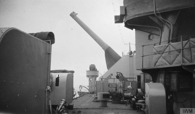 The Surrender of the German High Seas Fleet, November 1918 The 18-inch gun of HMS Lord Clive at full elevation